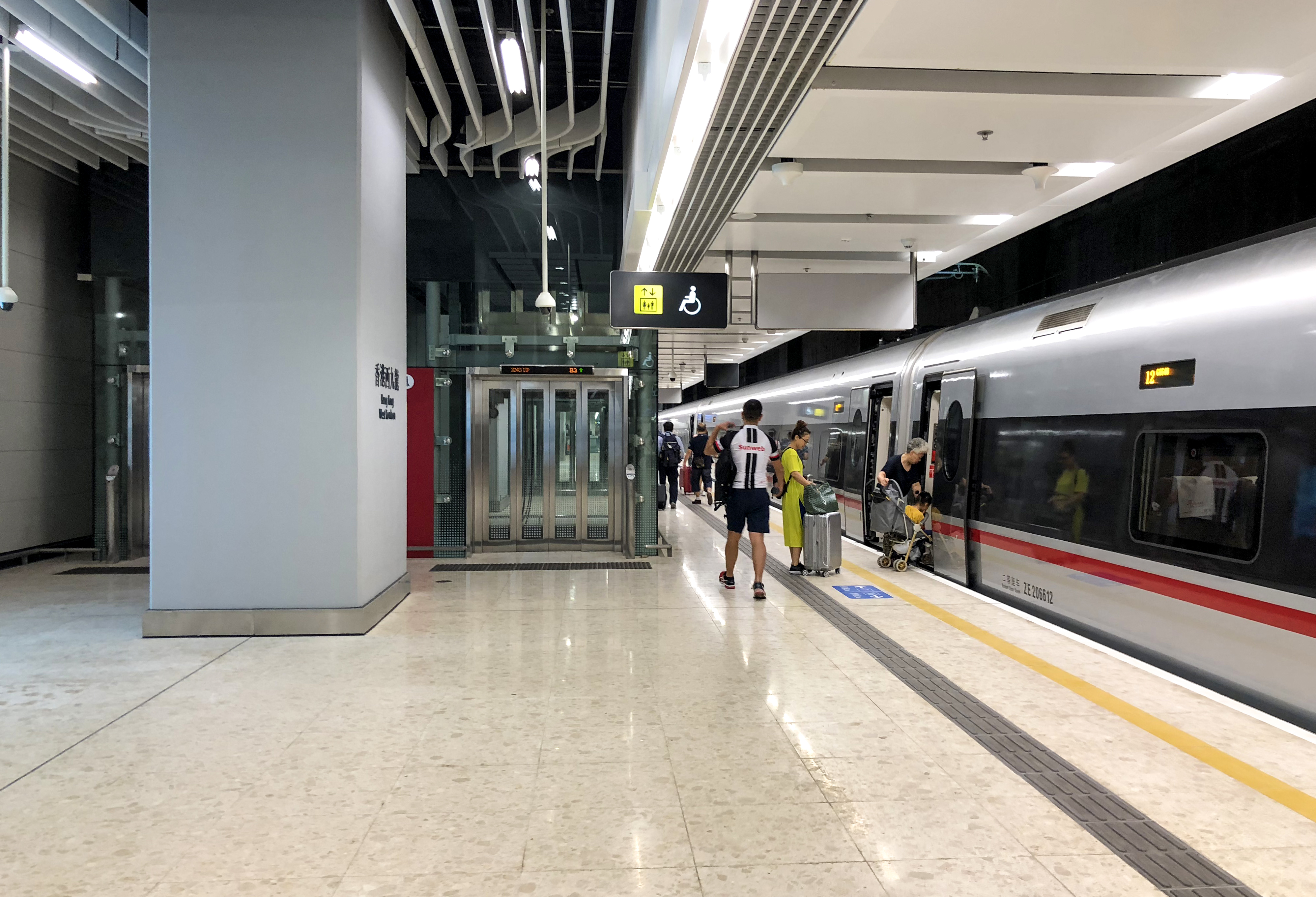 G6548 here, non-stop to Guangzhou South.